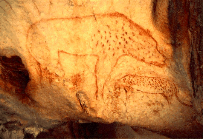 Cave hyena (Crocuta crocuta spelaea) painting found in the Chauvet cave and made public on January 17, 1995, by the Minister of Culture Jacques Toubon (Source: ) ; now known to be 32,000 year old.